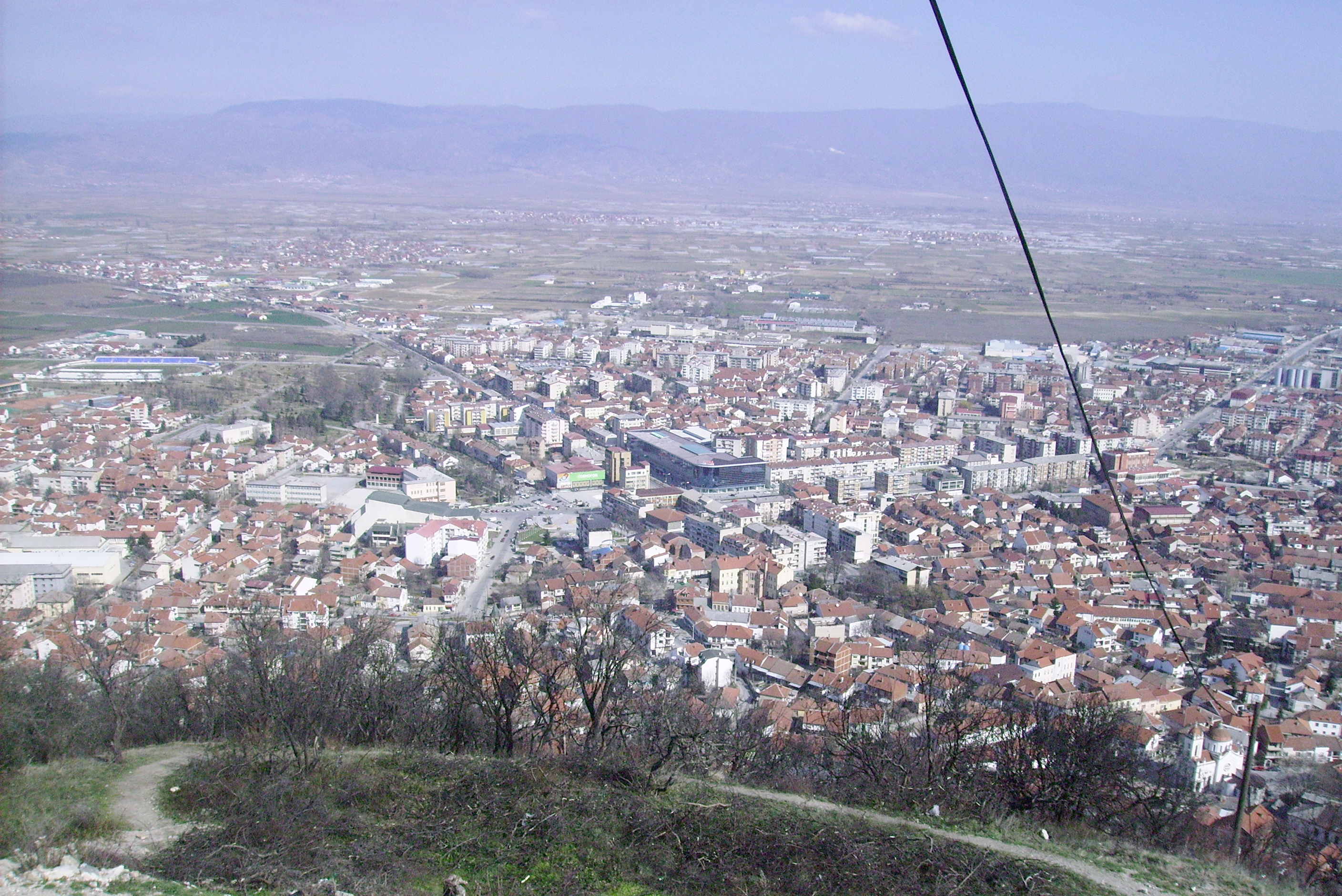 Carevi Kuli